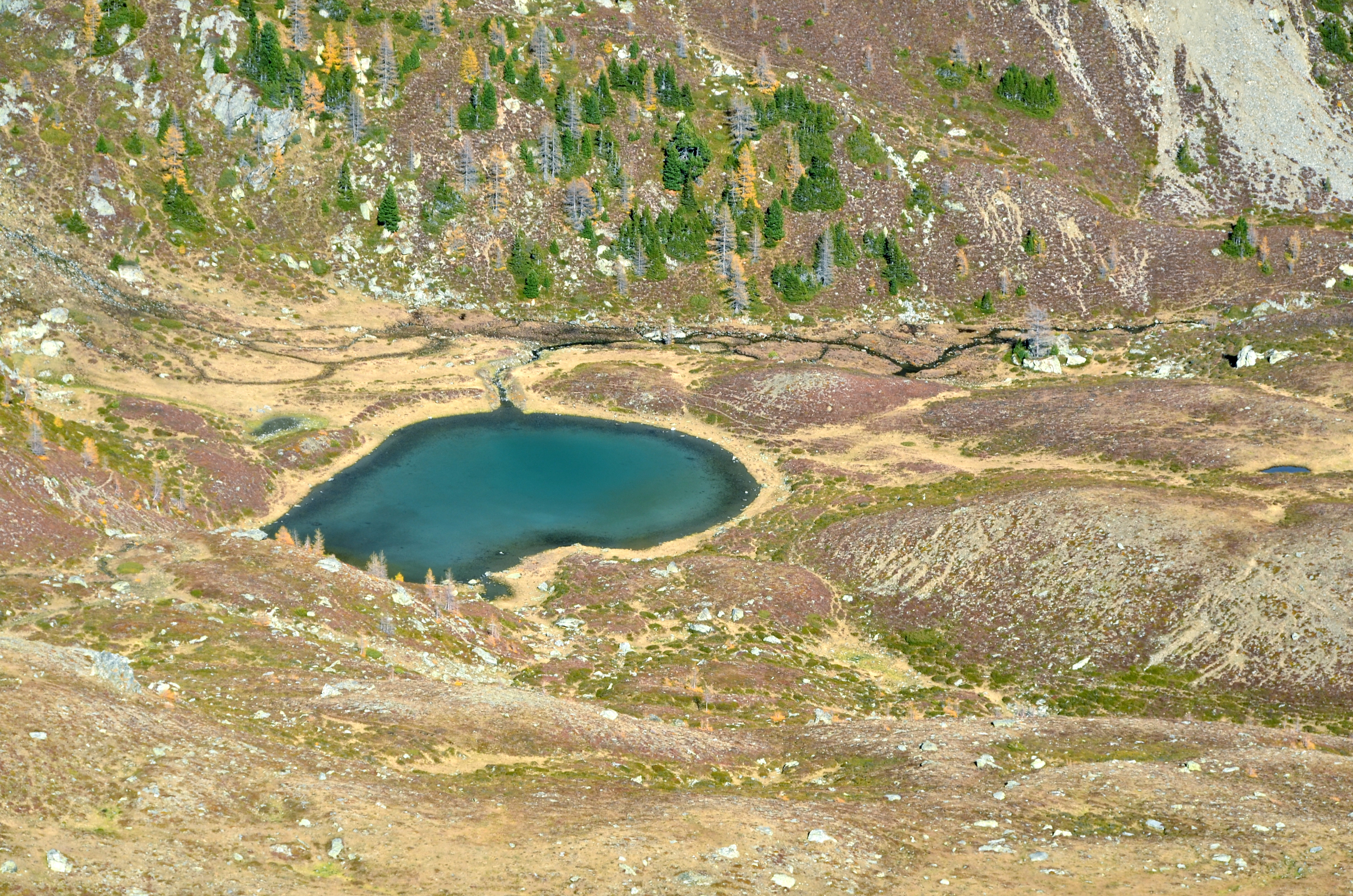 Gurksee (1970 m sea level) within the Nock mountains, Seebachern, municipality Albeck, district Feldkirchen, Carinthia / Austria / EU